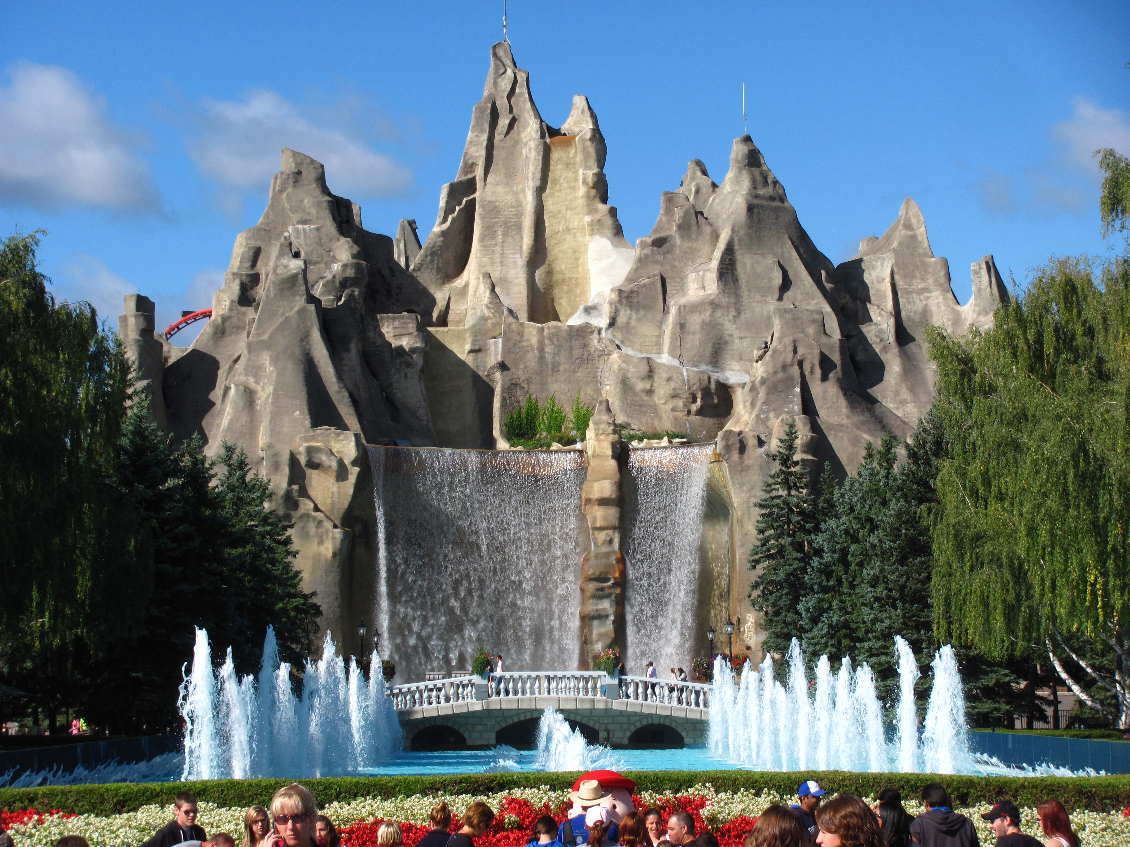 Canada's Wonderland 009